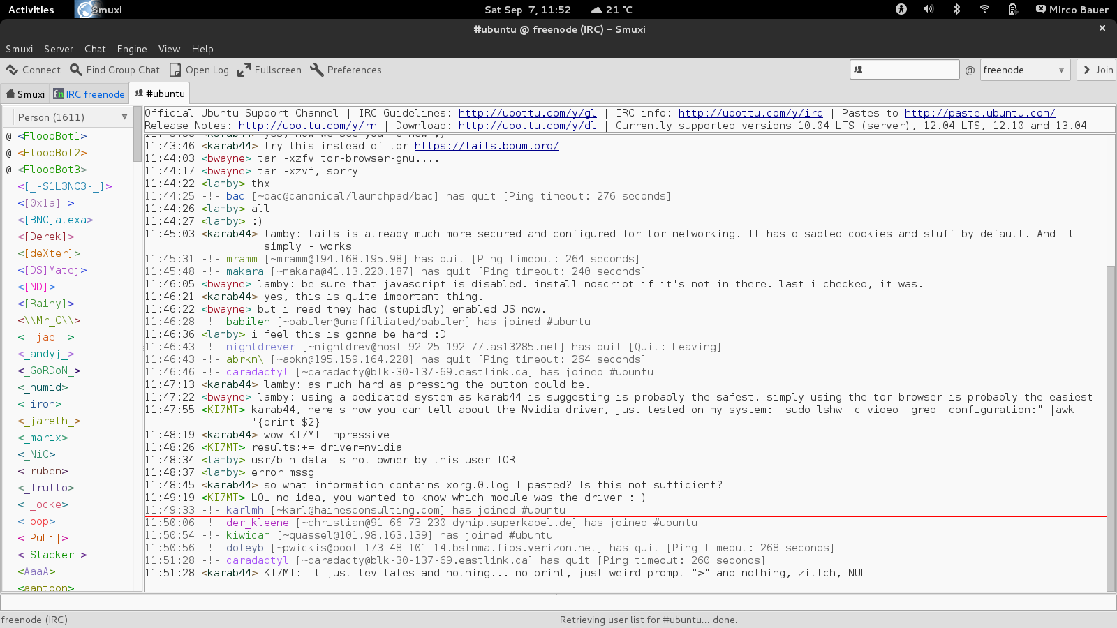 Screenshot of the Smuxi IRC client version 0.9